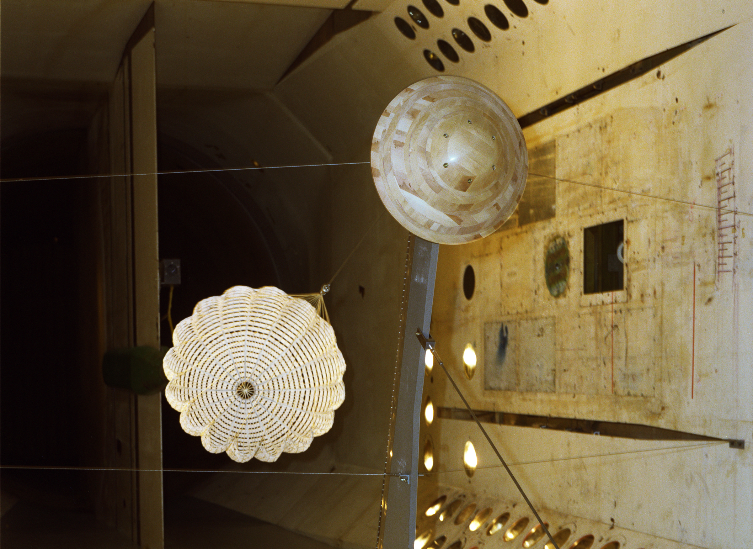 A parachute for the Galileo spacecraft is tested in a wind tunnel. Galileo consisted of an orbiter and an atmosphere probe that descended into Jupiter's atmosphere on a parachute after being braked by a heat shield.